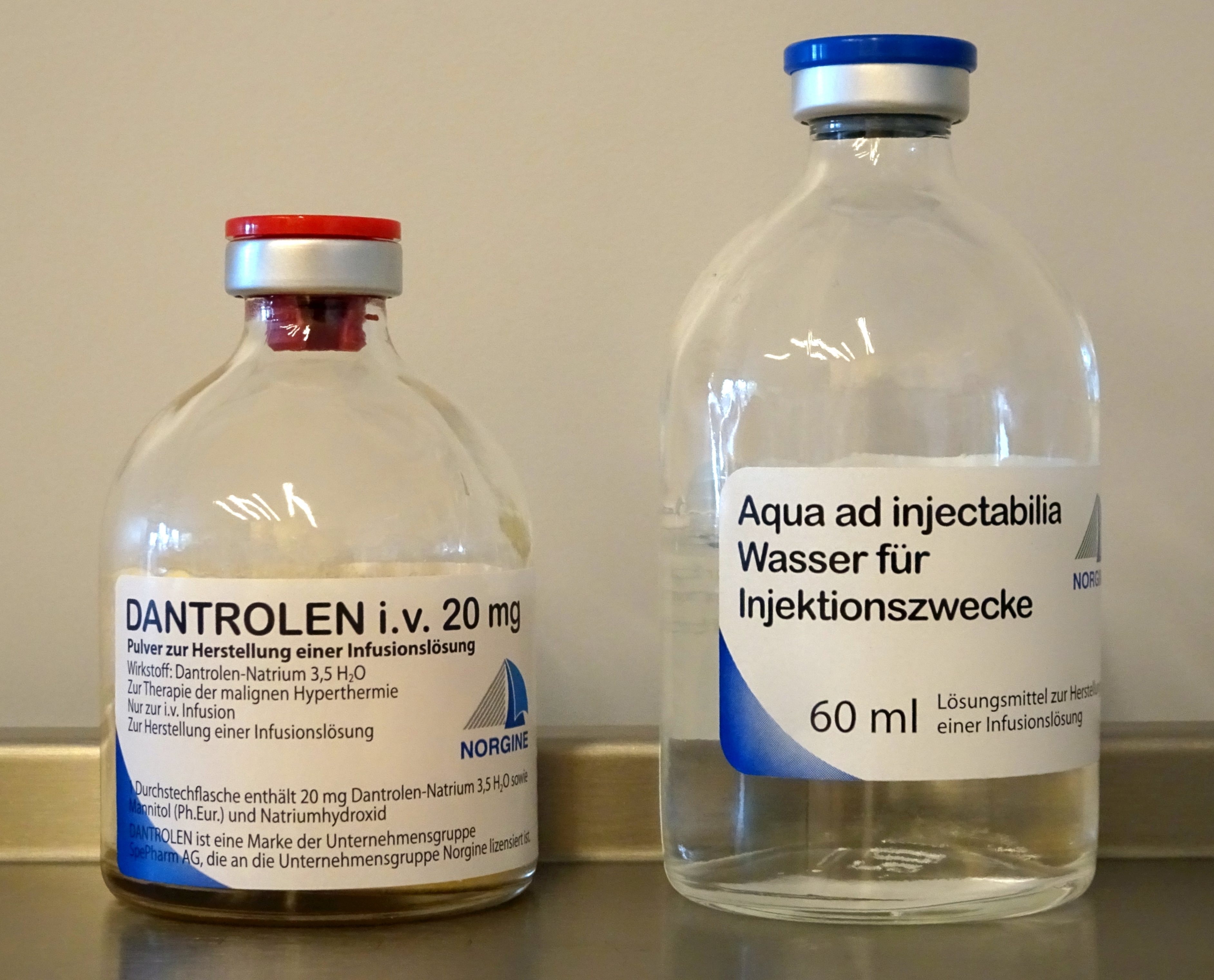 Dantrolene Ampoule 20mg with Water for solution